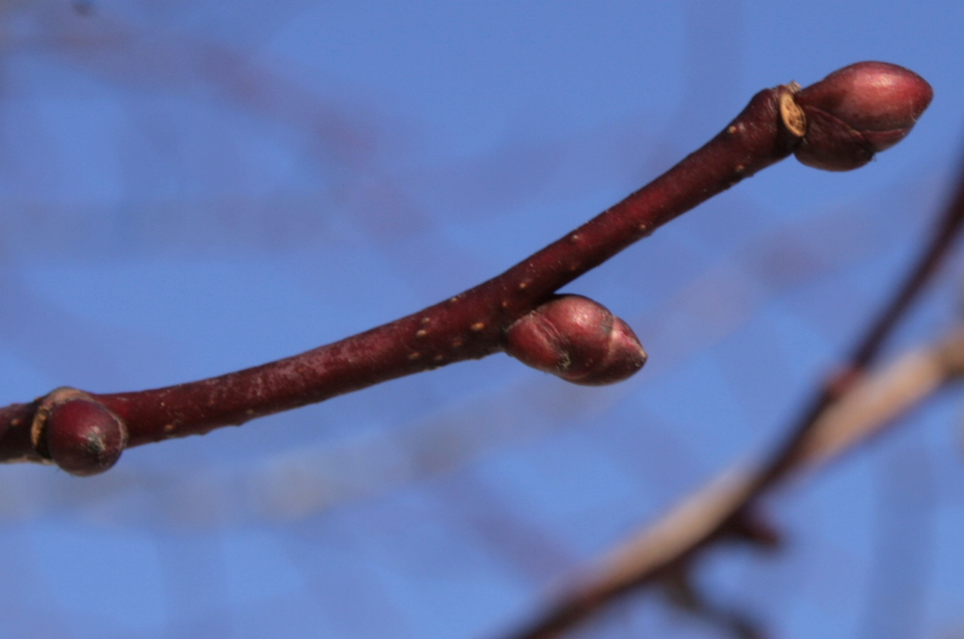 Tilia cordata: Buds